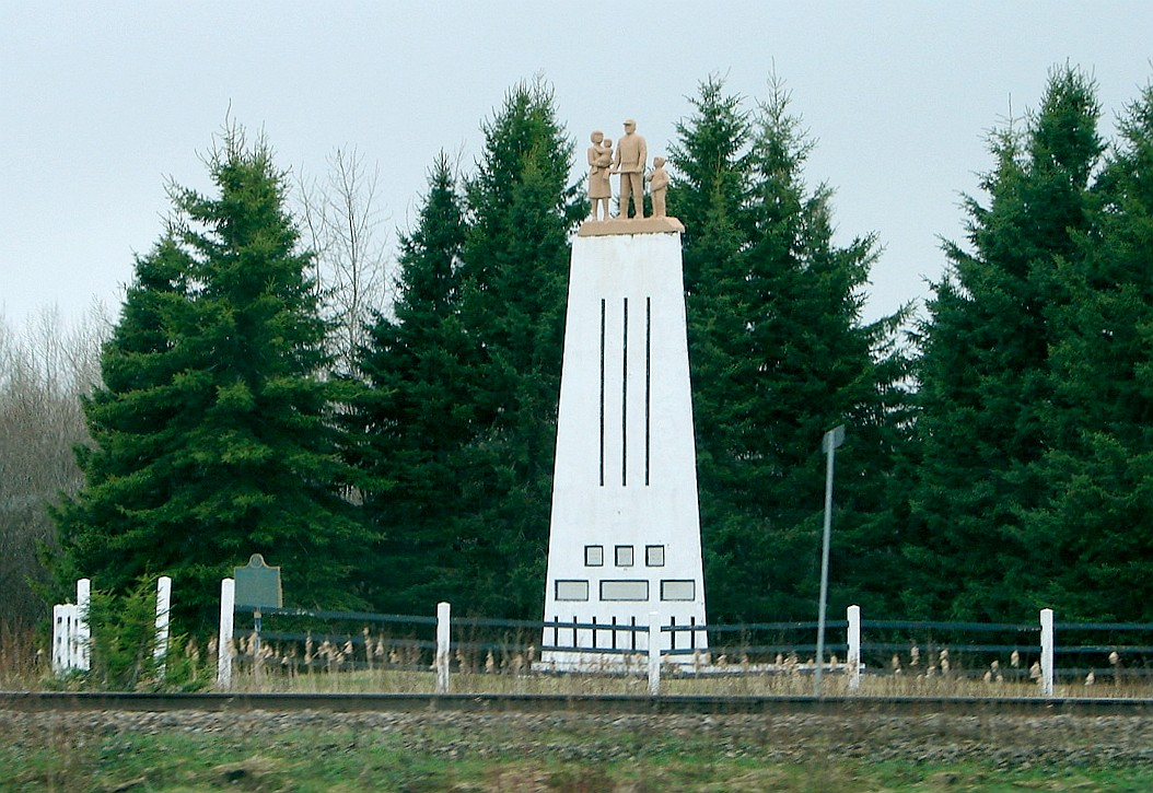 Monument to 1963 labour strike at Reesor Siding, Ontario, Canada